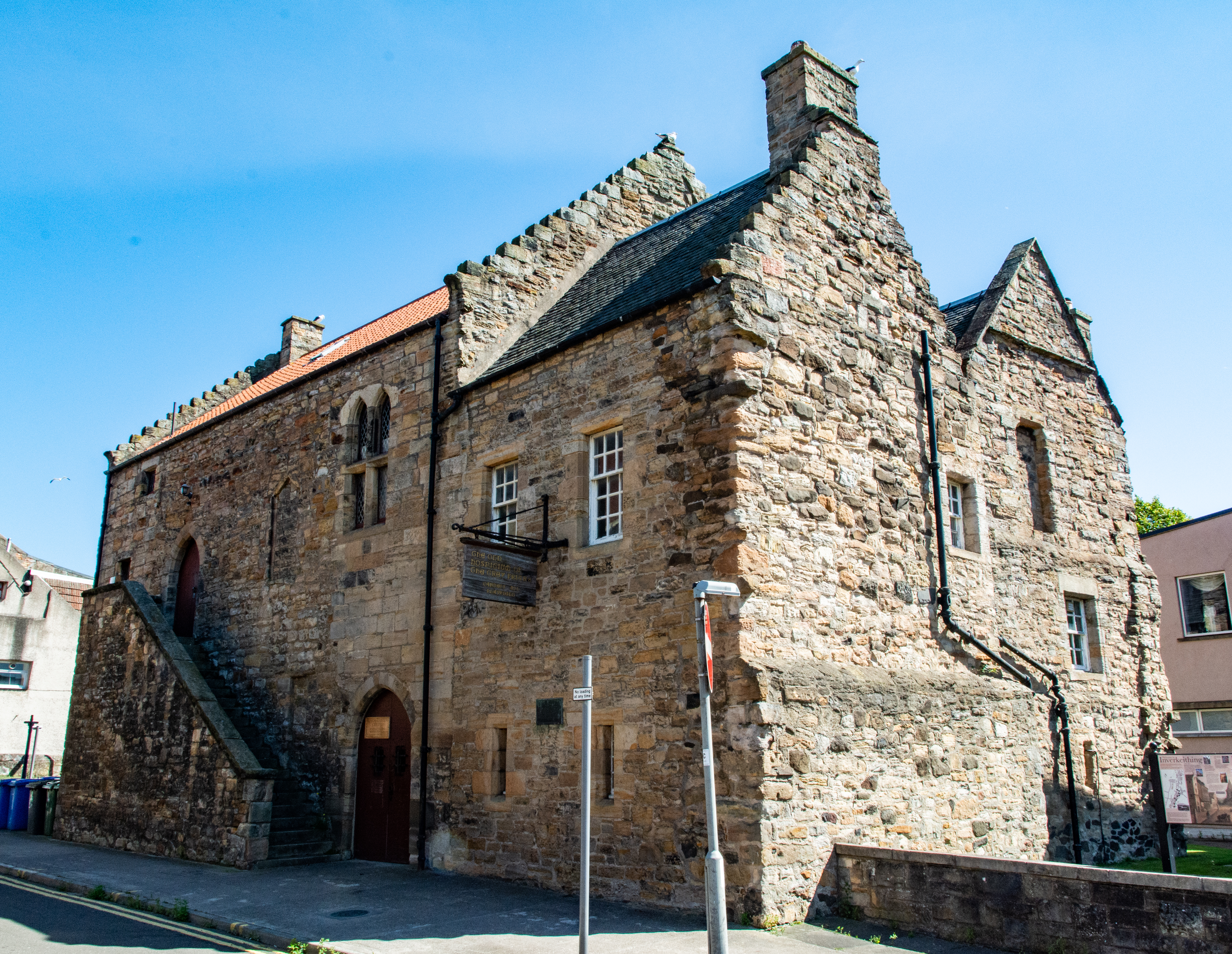 14th-century Hospitium (guest house) of the Grey Friars in Inverkeithing, Fife, Scotland